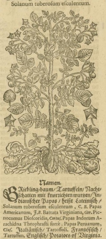 Griebling-baum oder Tartuffeln. Solanum tuberosum esculentum. Jacob Bertsche Bâle 1696